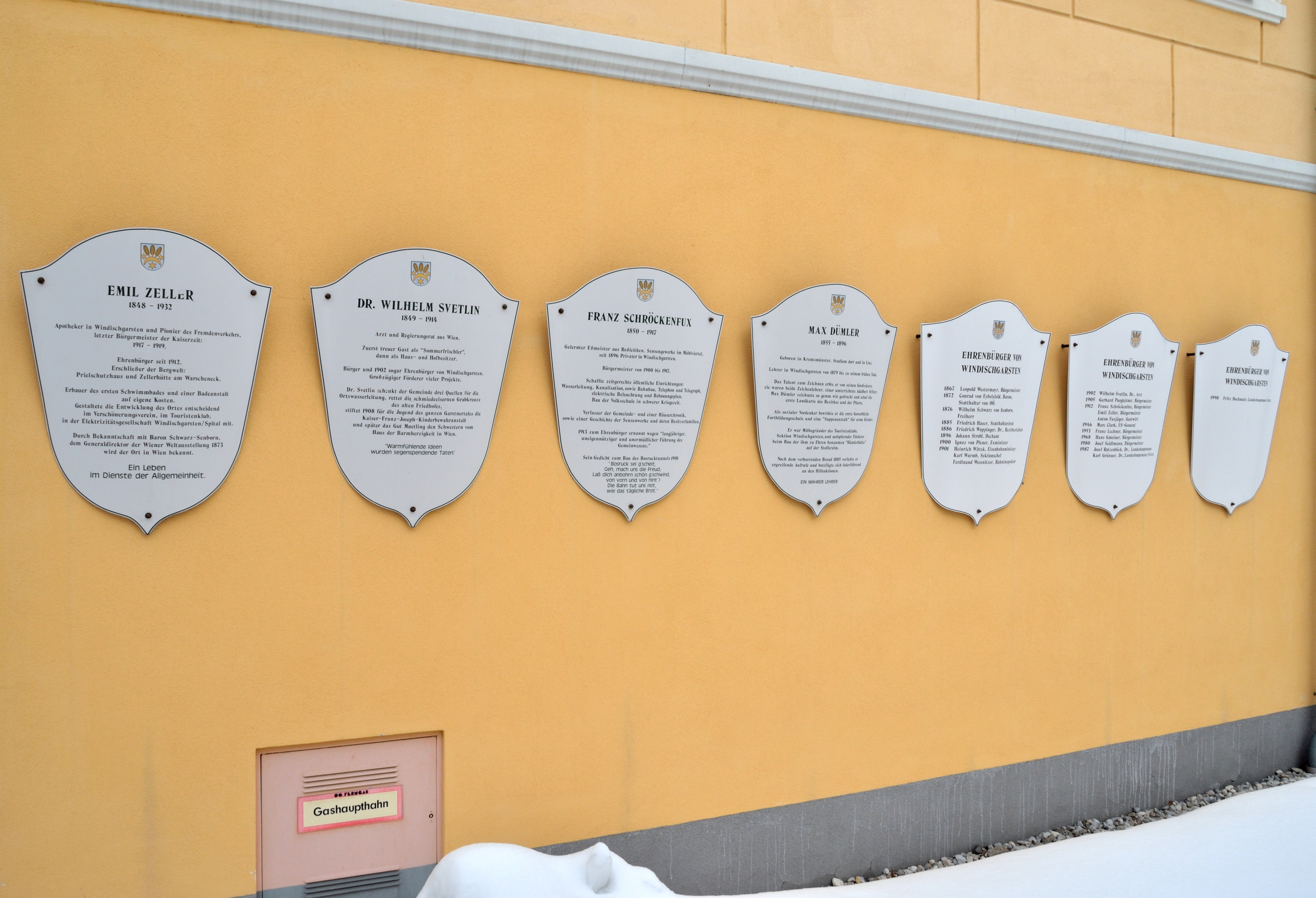 The former district court house (Bezirksgericht) in Windischgarsten, Upper Austria, is protected as a cultural heritage monument. At the back side there is a set of tables honouring important citizens of the municipality.